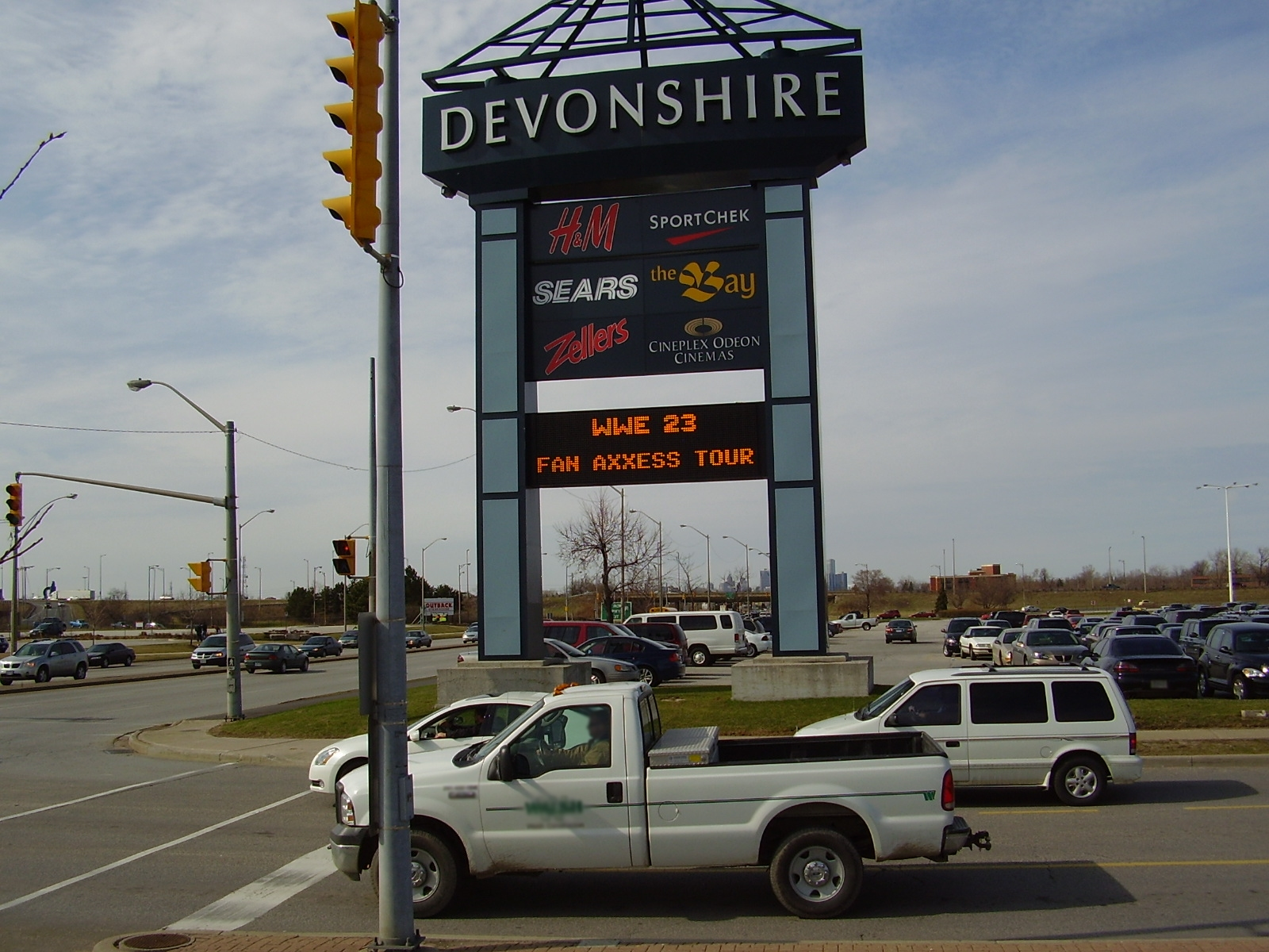 The Devonshire Mall marquee on March 28, en:2007, promoting the WrestleMania 23 Fan Axxess Tour which visited the mall on the 28th and 29th.